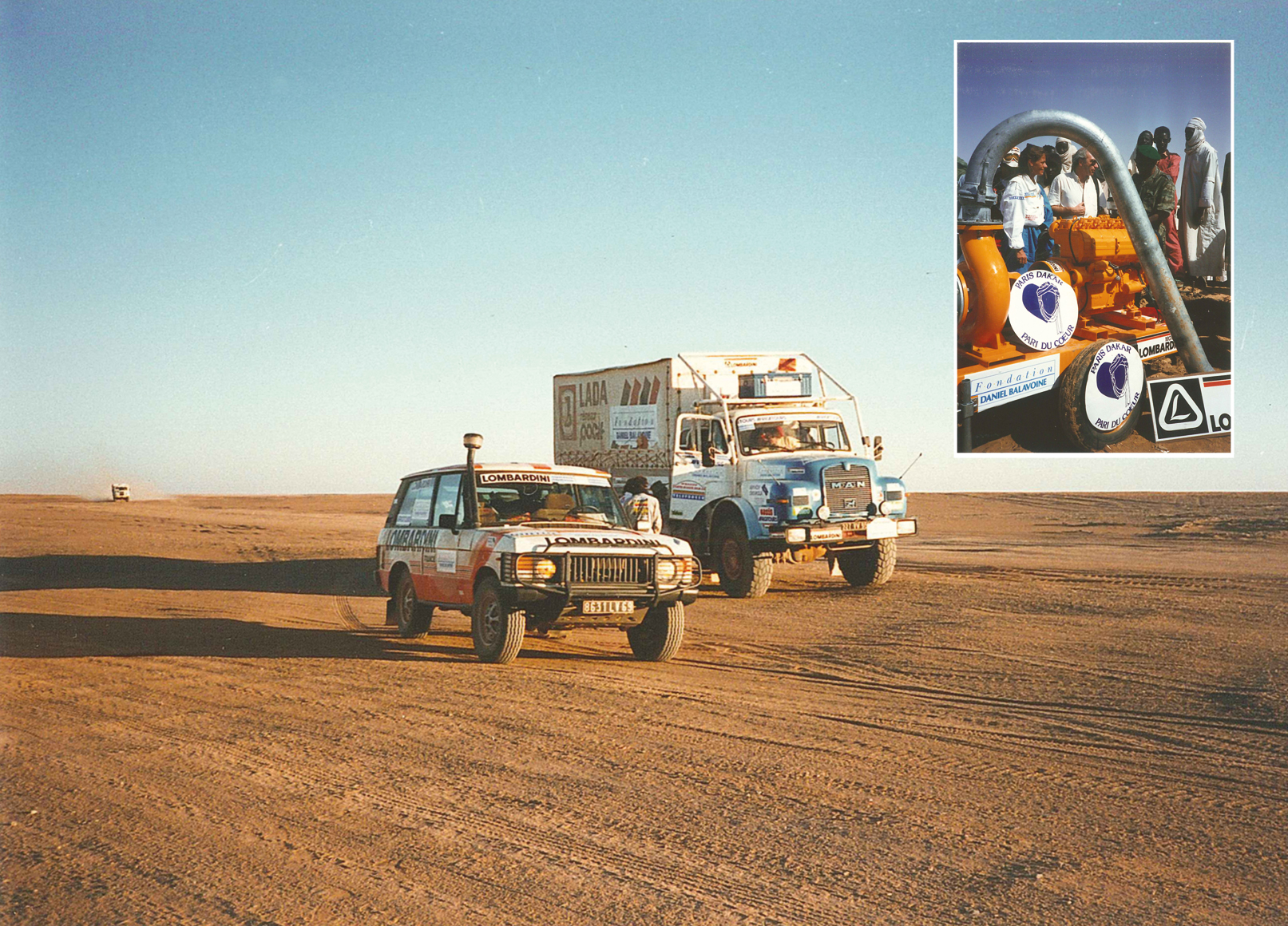 Paris du Coeur. Thierry Sabine, event promoter, organised in 1987 in parallel to the Paris Dakar, a humanitarian initiative. The Paris du Coeur donated a Lombardini pumping unit at each stage of the competition.